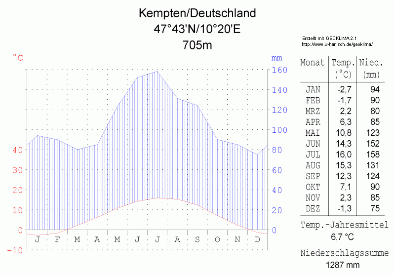 climate chart in the format by Walther and Lieth, metric, °Celsisus and millimeters, made with Geoklima 2.1